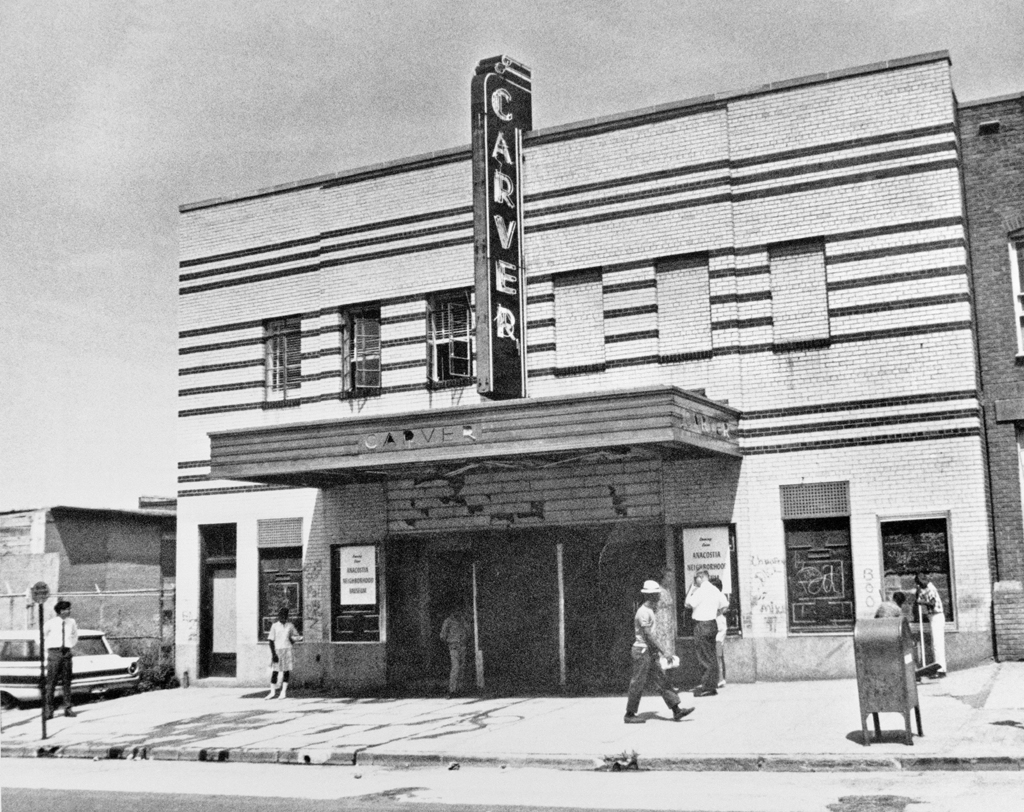 The Carver Theater, before its renovation for the Anacostia Neighborhood Museum, located on Martin Luther King, Jr. Ave in Anacostia. The Museum opened in September 1967 and remained at this location until April 1987, when it moved to its present location, 1901 Fort Place, S.E., Washington, D.C., and renamed Anacostia Museum. The museum is now known as the Anacostia Community Museum.